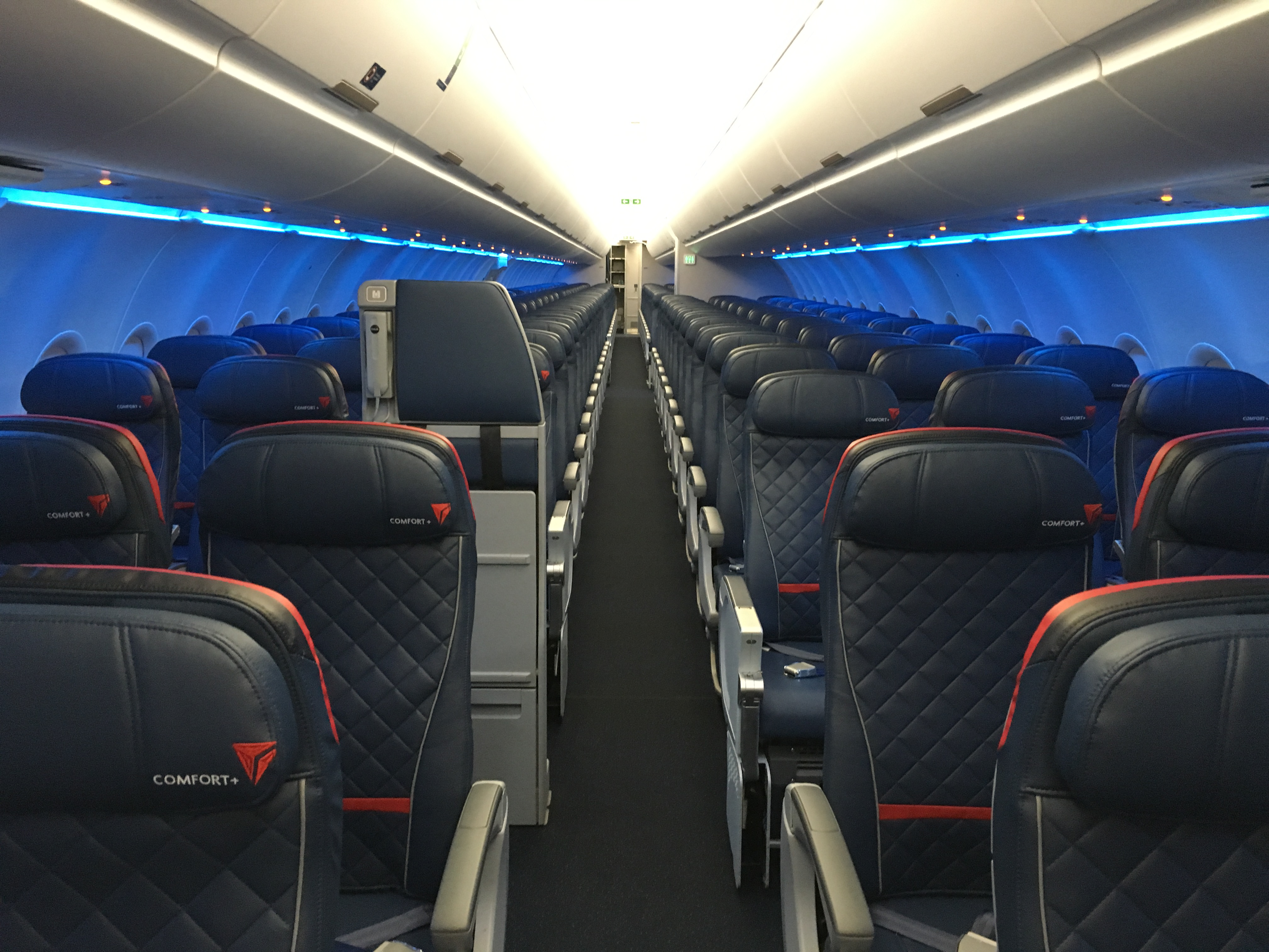 Interior of Delta Air Lines Airbus A321